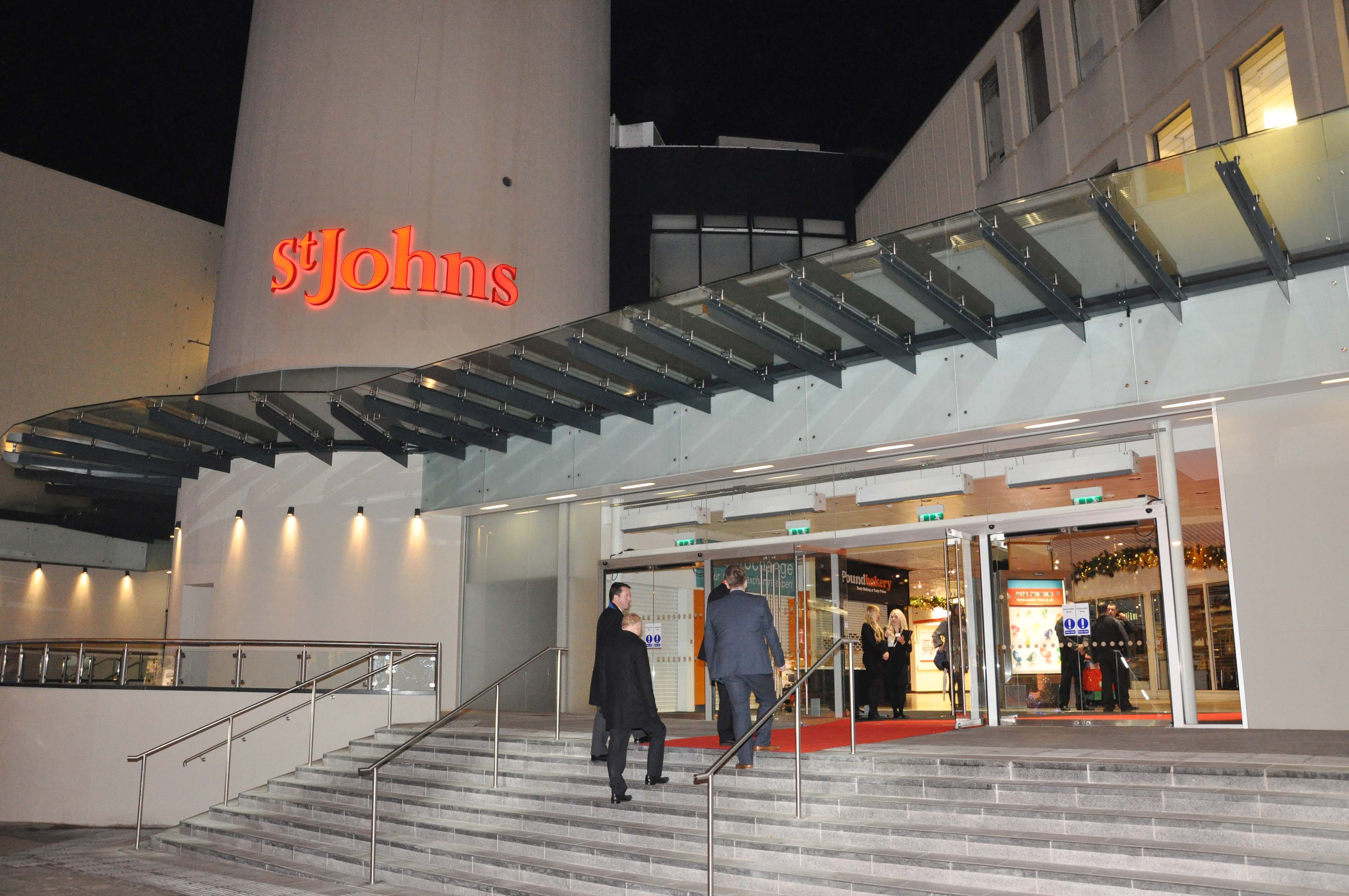 A night shot of the Houghton Street entrance at St Johns shopping Centre